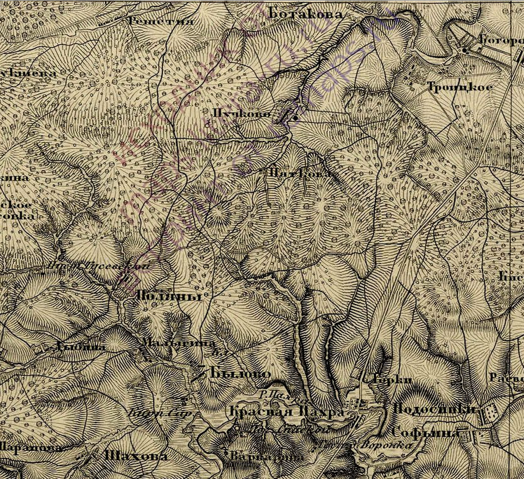 Old country-side around Troitsk, Moscow